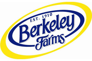 logo of Berkeley Farms, dairy company originally based in Berkeley, California (now operating primarily out of Hayward, California), division of Dean Foods.